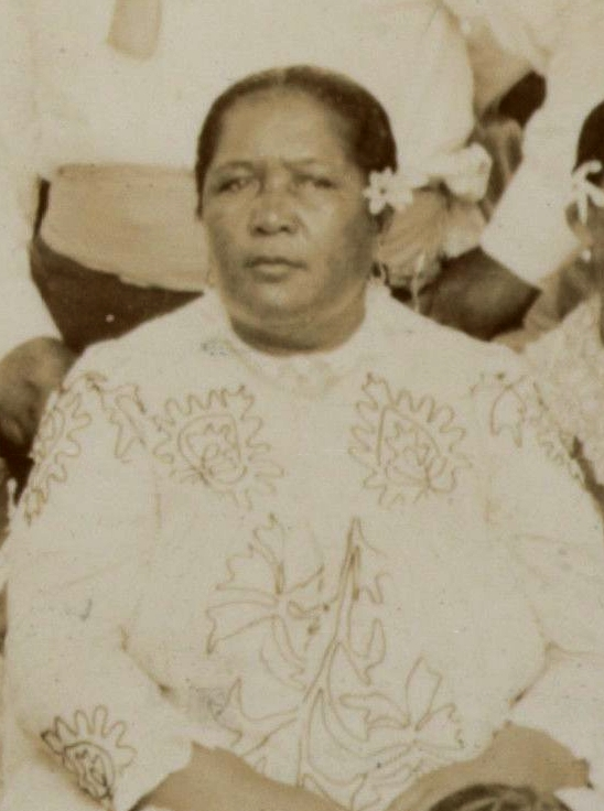 Tinomana Mereana Ariki. Cropped image taken from a formal group portait, circa 1896.